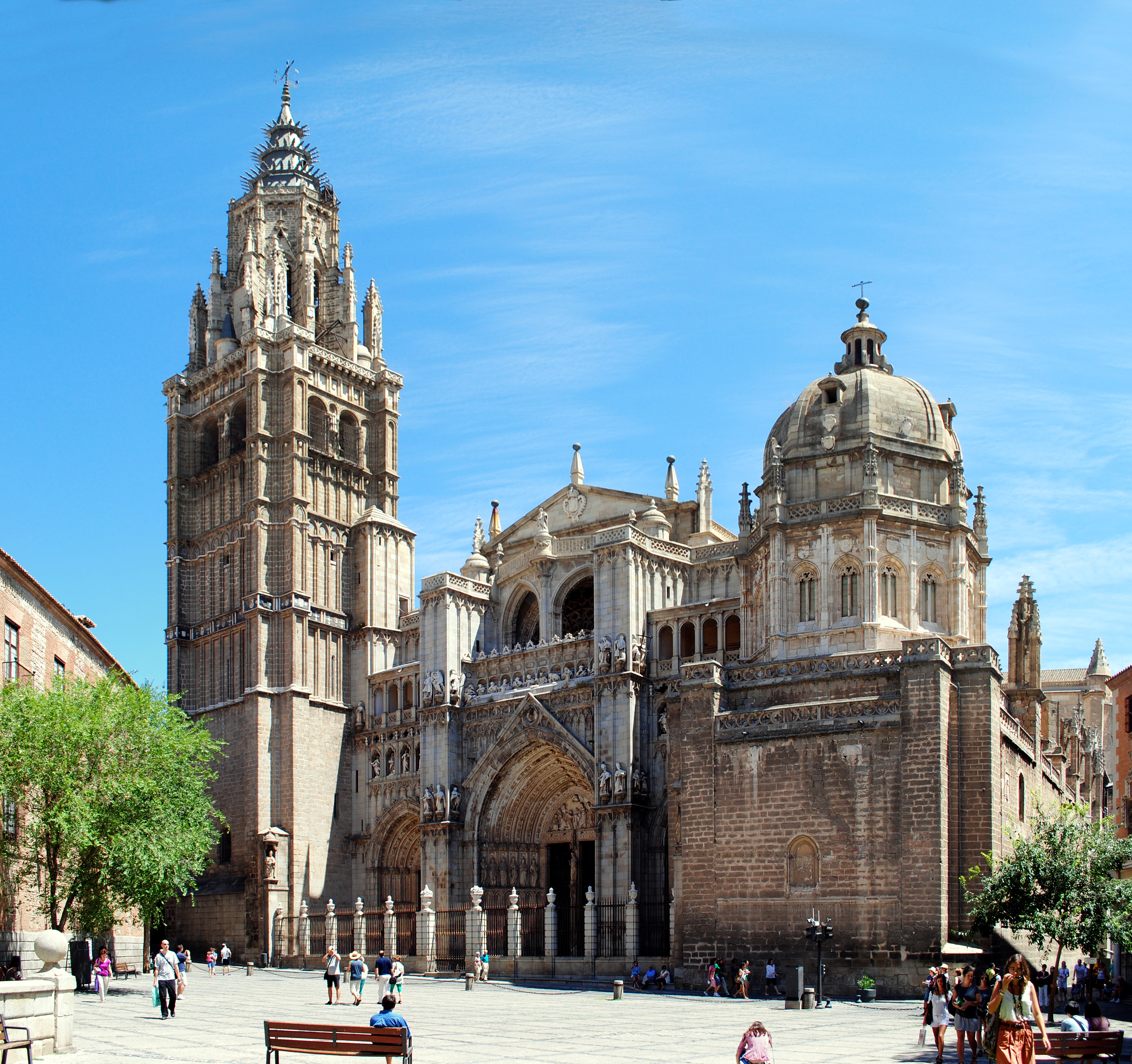 Toledo Cathedral, from the Plaza del Ayuntamiento.